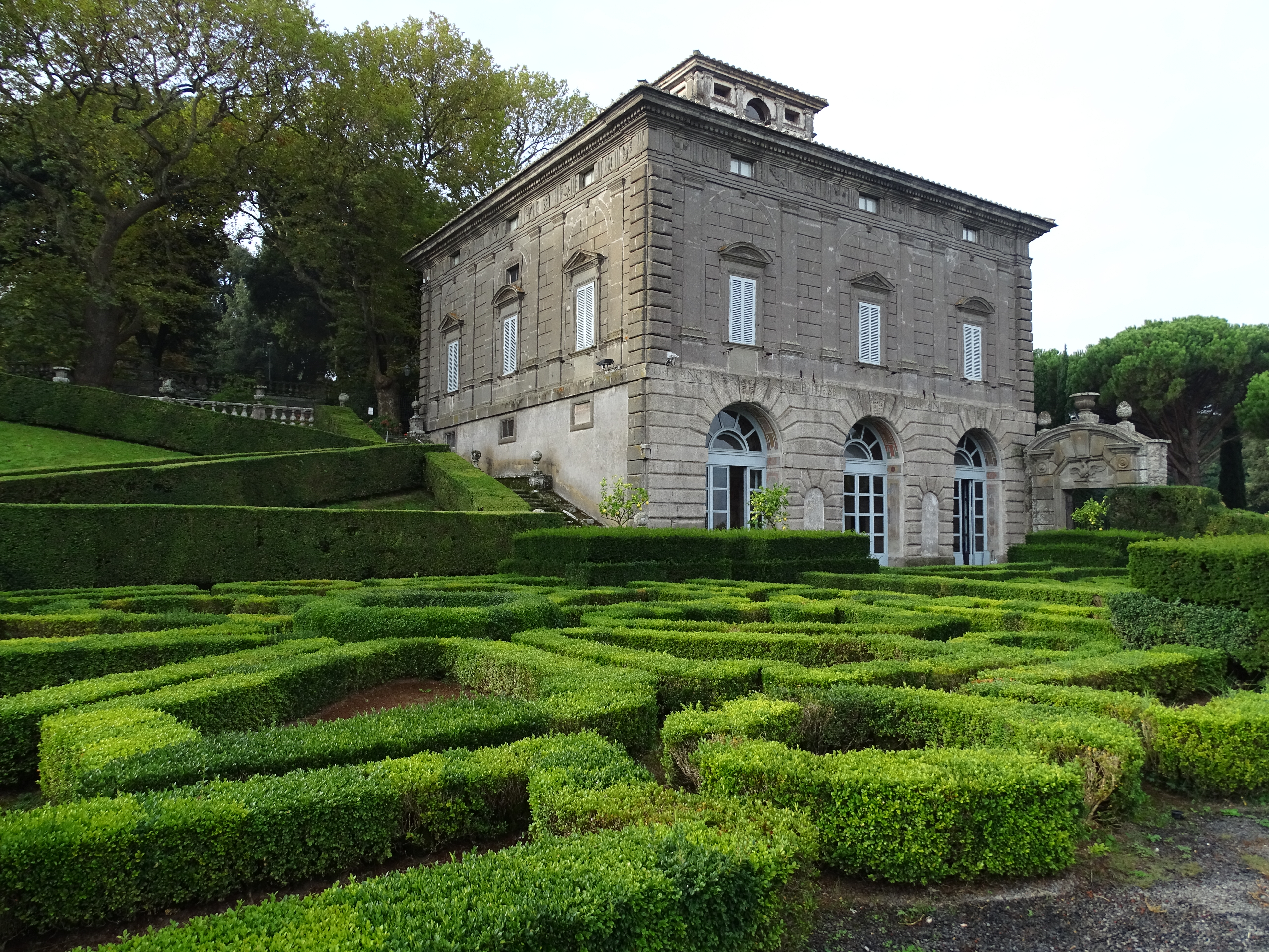 Fountains in the garden of the villa Lante